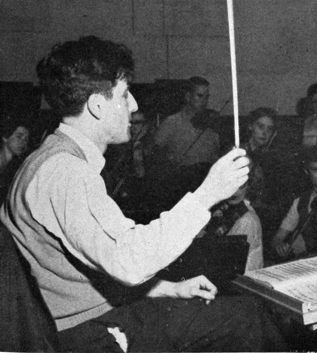 Lukas Foss conducting at UCLA